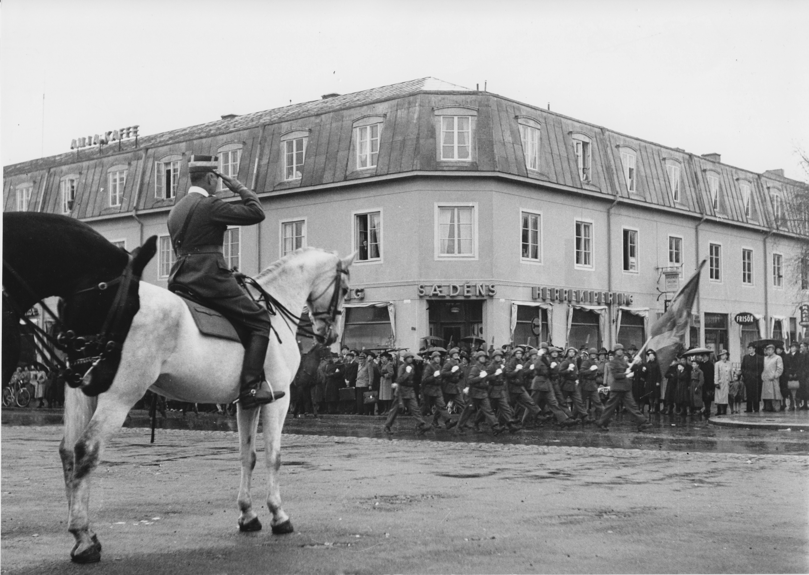 Major General Nils Rosenblad inspects Västerbotten Regiment at the Town Hall Square